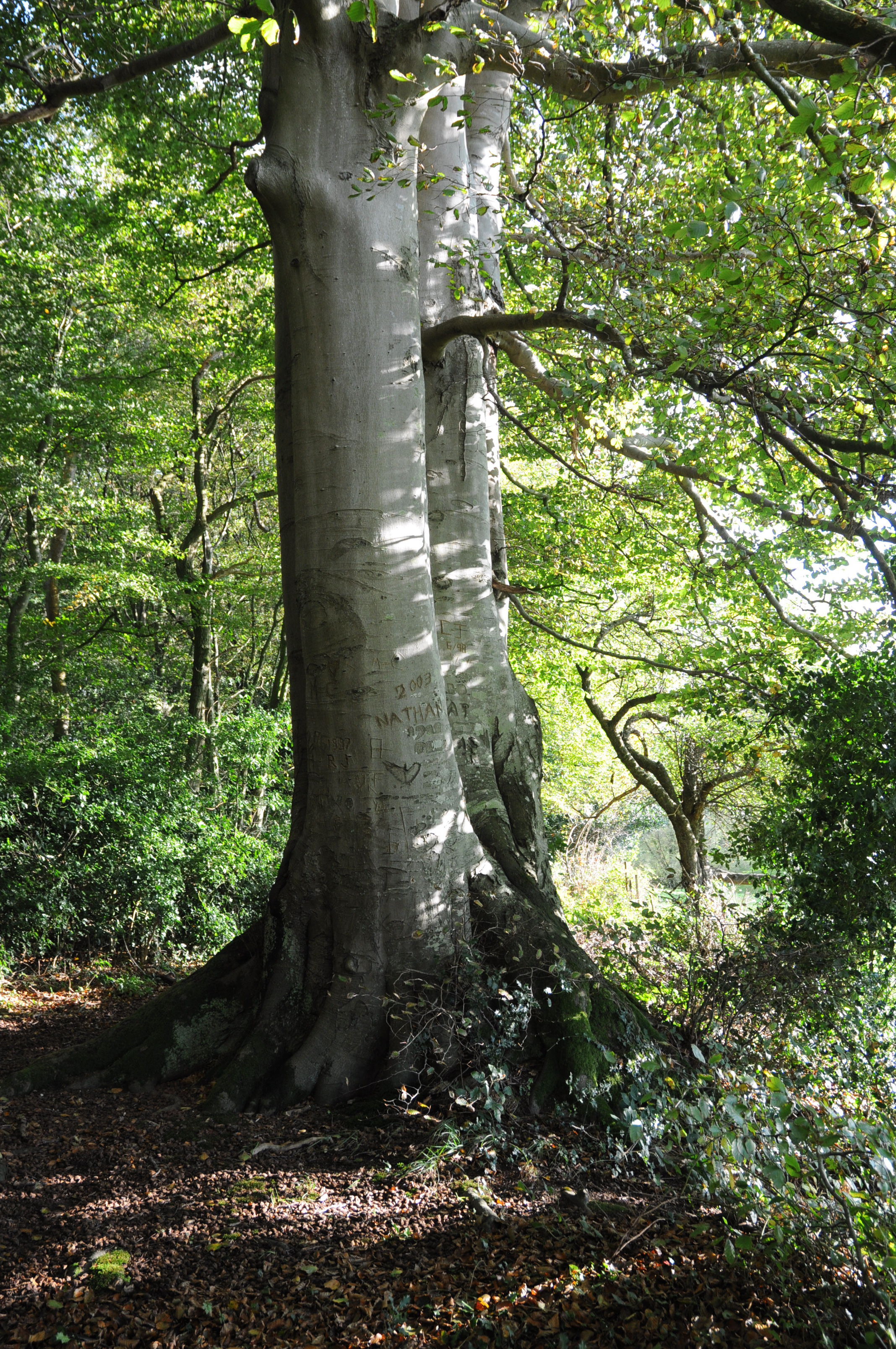 Desvres-Forest